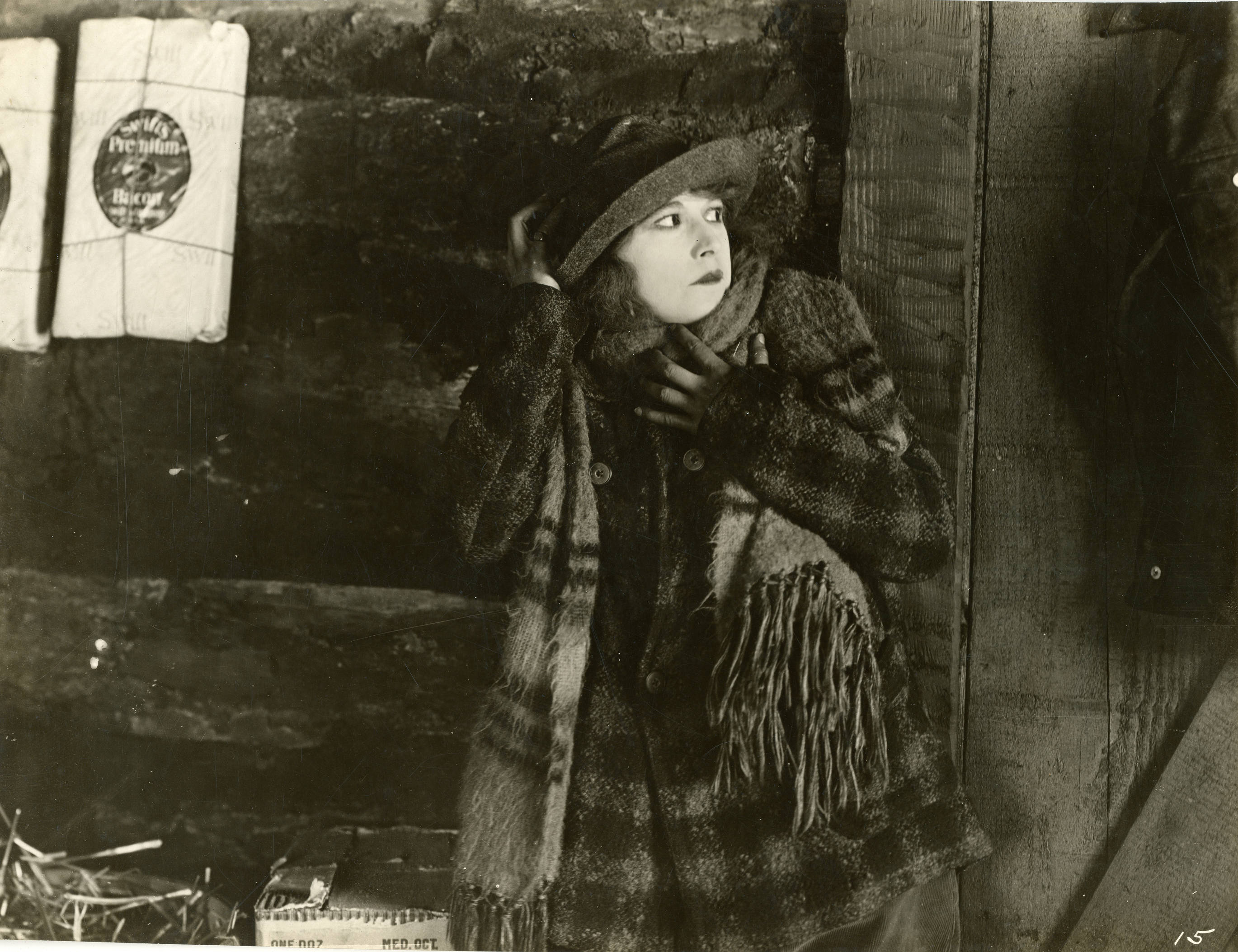 Film actress Teddie Gerard, from the American drama film The Cave Girl (1921). Subjects: actresses